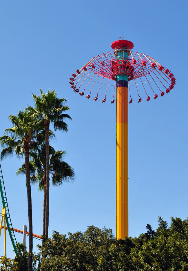 This is a photo of the Knott's Berry Farm version of WindSeeker. It is a photo of the most of the tower and shows the difference from the rest of the WindSeeker's across North America